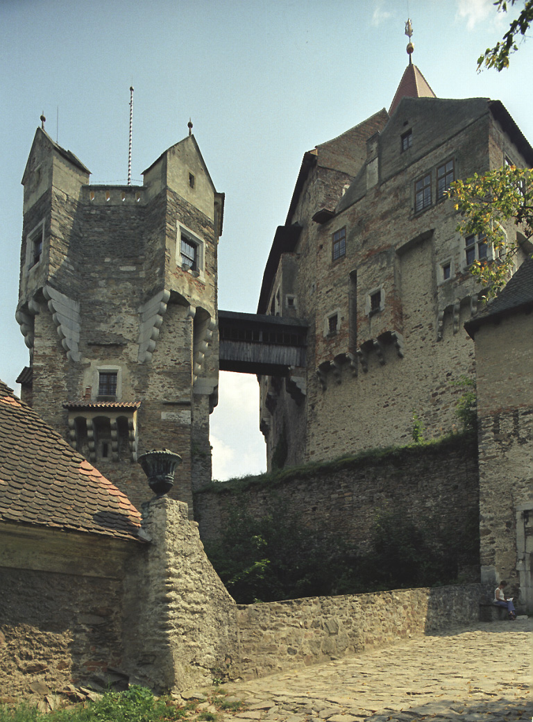 Pernstejn Castle